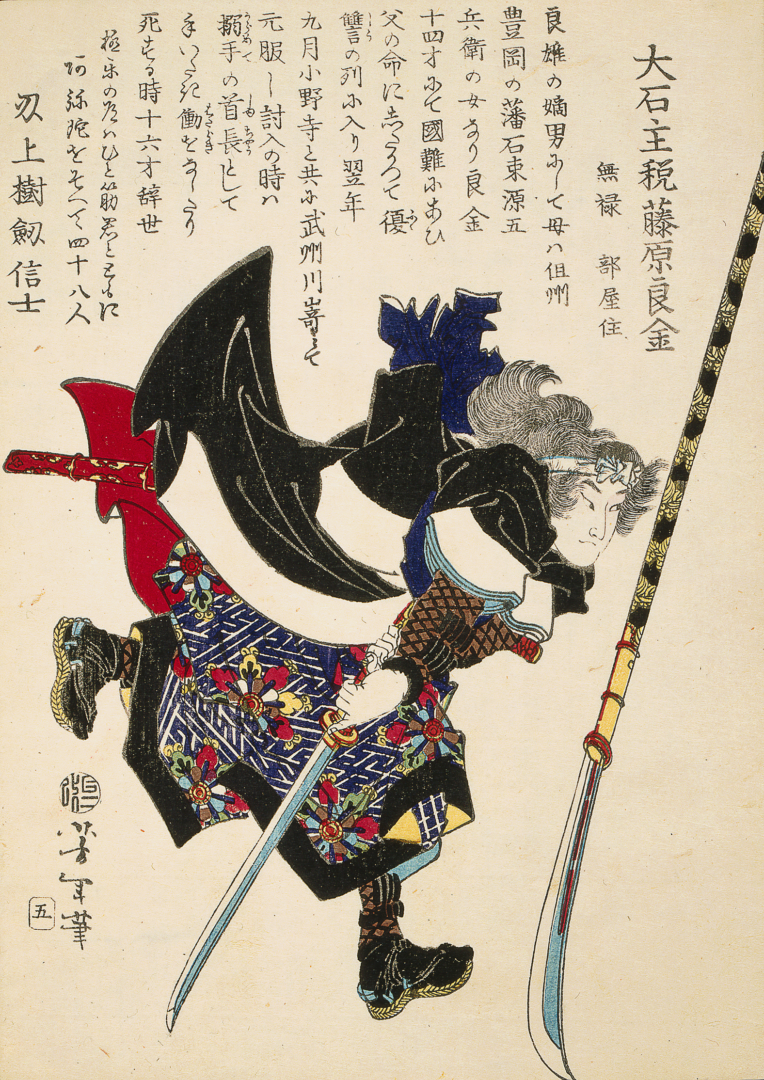 Ukiyo-e print illustration showing Ronin, sword in hand, moving towards long-handled sword (naginata).